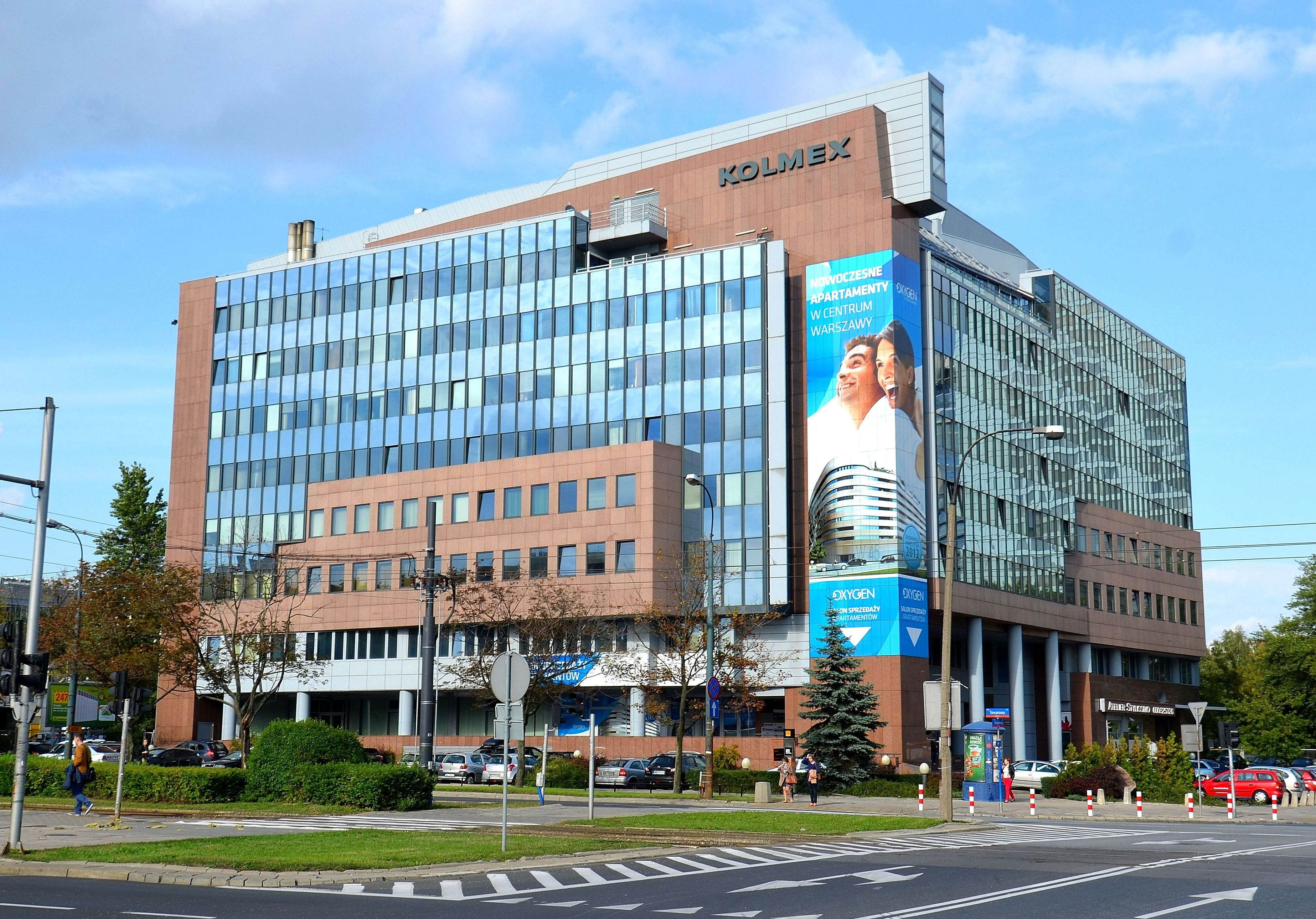 Kolmex office building at 80/82 Grzybowska Street in Warsaw